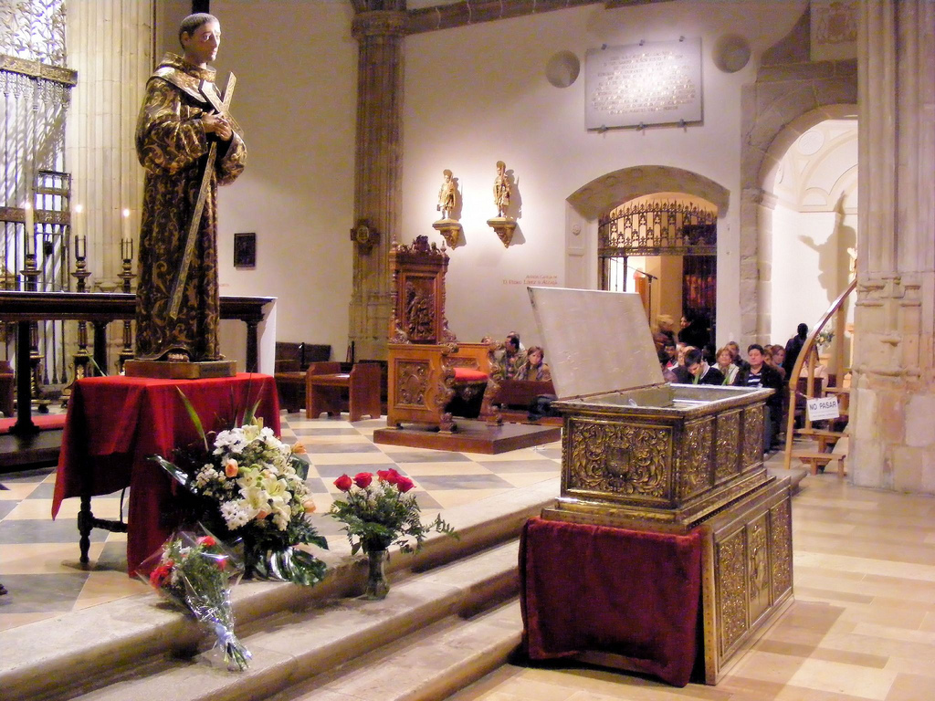 Exposición anual del cuerpo incorrupto de San Diego de Alcalá en la Catedral de Alcalá de Henares, el 13 de noviembre, festividad del santo.